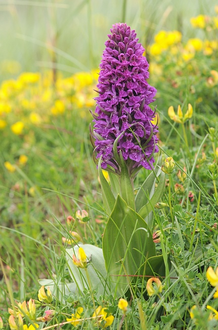 Dactylorhiza purpurella, Dublin / Ireland